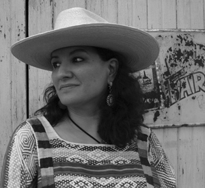 sandra cis